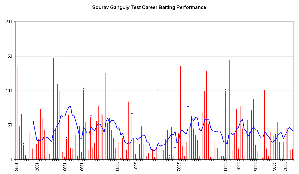 This graph details the Test Match performance of Sourav Ganguly. It was created by Raven4x4x. The red bars indicate the player's test match innings, while the blue line shows the average of the ten most recent innings at that point. Note that this average cannot be calculated for the first nine innings. The blue dots indicate innings in which Ganguly finished not-out. This graph was generated with Microsoft Excel 2002, using data from Cricinfo and .au. The information in this chart is current as of 2 June, 2007.